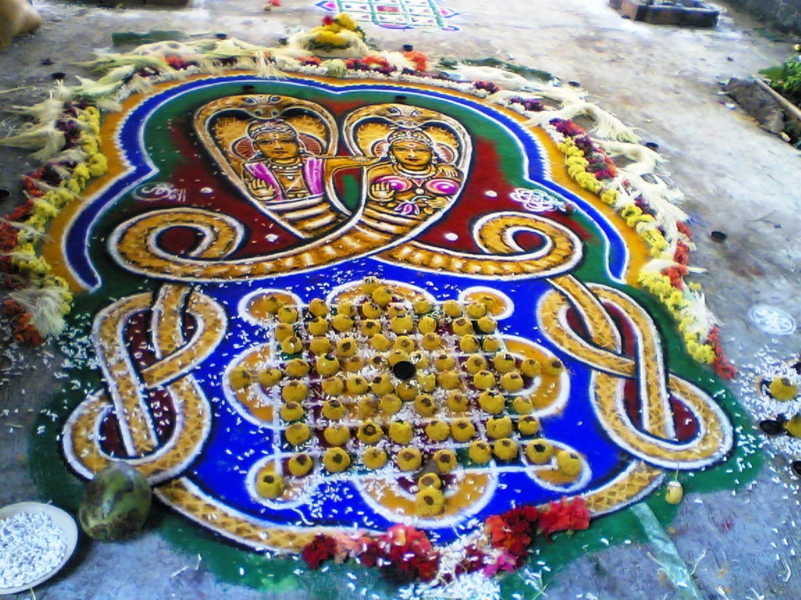 the file was entirely created by me the uploader